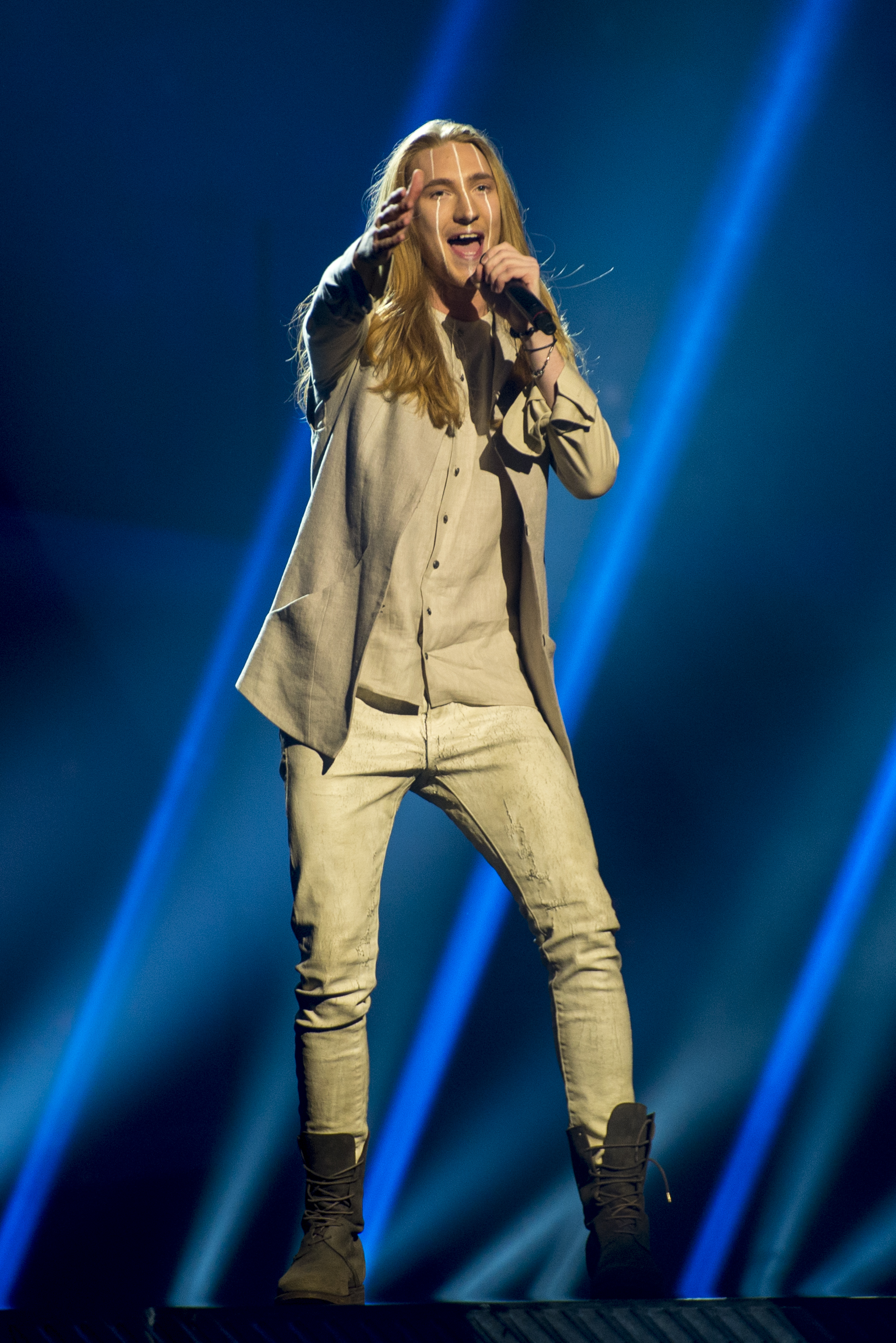 Ivan representing Belarus with the song "Help You Fly" during a rehearsal before the second semi final of the Eurovision Song Contest 2016 in Stockholm. (Help translate this text)